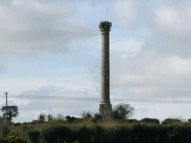 Browne and Clayton monument Just off the main n25 New ross road stands this fine monument.